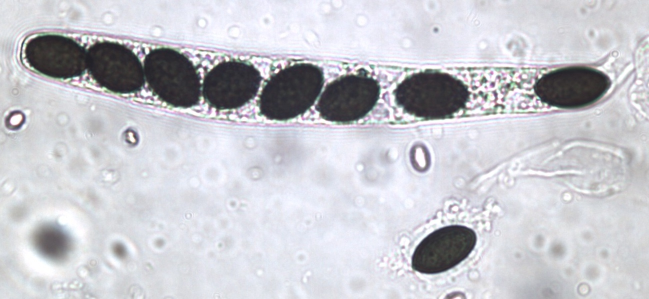 Sordaria fimicola ascus plus ascospore